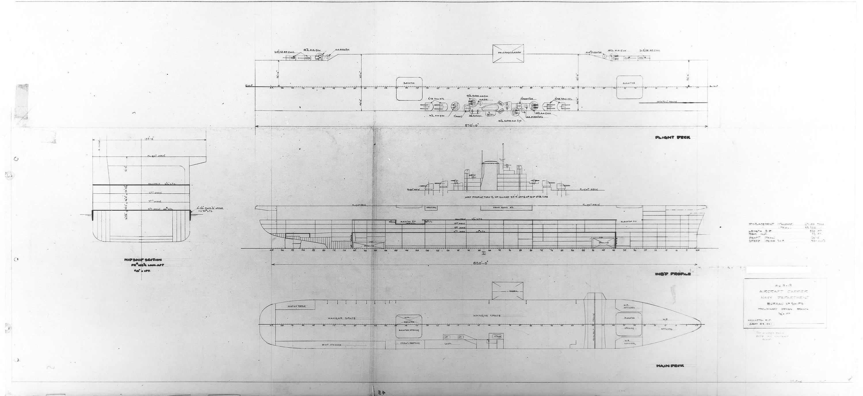 "CV 9-19 Aircraft Carrier". Preliminary design plan of the Essex class (CV-9) aircraft carriers, apparently showing the arrangement finally accepted. This plan is for a ship of 27,100 tons standard displacement (33,900 tons trial displacement). Length between perpendiculars is 820', beam 93' and trial draft 26' 10". Machinery is of 150,000 horsepower for a speed of 33 knots. The drawing is dated 23 September 1941. A handwritten note below the date line comments "This is later than date on contract plans", indicating that this drawing was prepared "after the fact". Scale of the inboard profile and deck drawings is 1/32" = 1'. Scale of the midship hull section drawing is 1/16" = 1'.